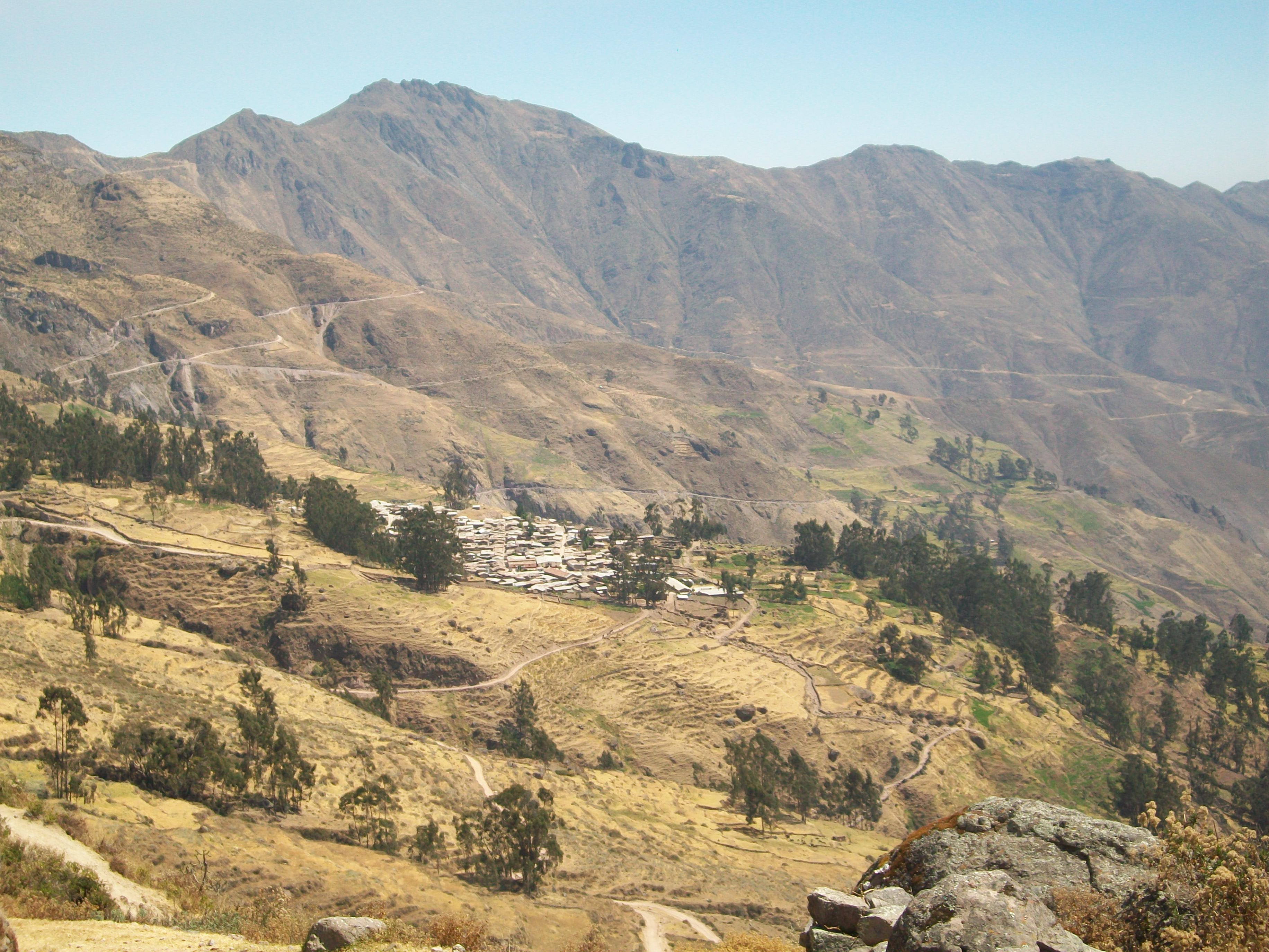 Ayaviri